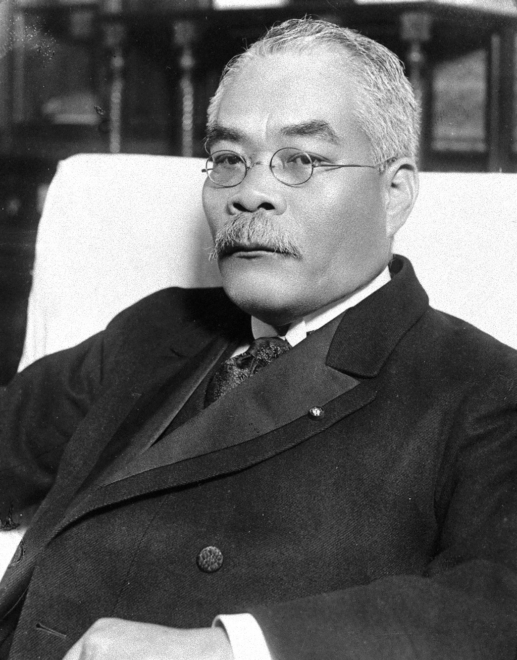 Portrait of Hamaguchi Osachi (浜口雄幸, 1870 – 1931)